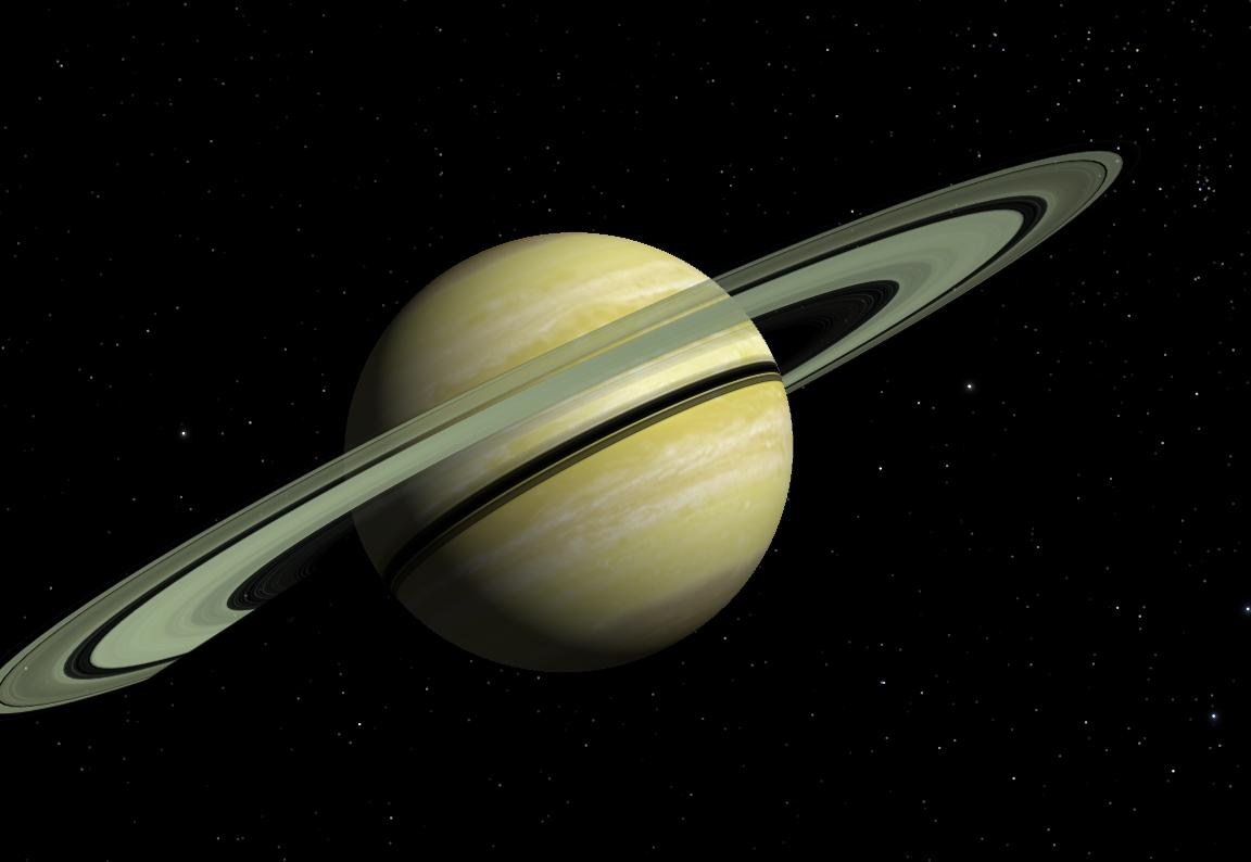 Planet Iota Horologii b (min mass ~2.2 MJ) with Saturn-like rings, and a sulfuric stained atmosphere.